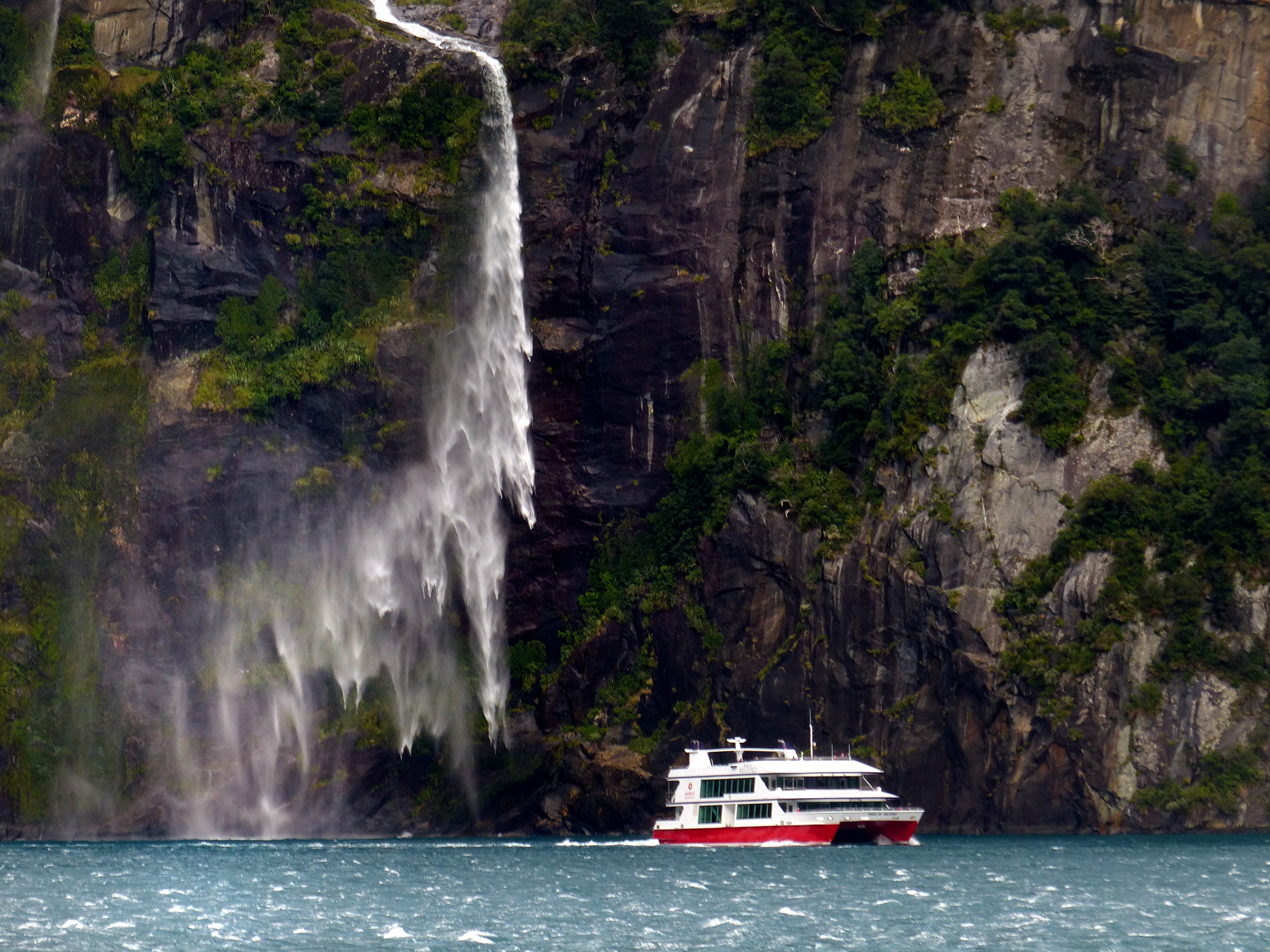 Southern Discoveries are the premier cruise company in both Milford Sound and Queenstown offering a range of Milford Sound Cruises, Go Milford Day Tour, Milford Sound Kayaking, the Milford Discovery Centre - New Zealand's only floating underwater observatory and Queenstown Lake Cruises.